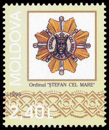 Stamp of Moldova